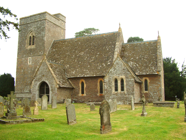 Llangasty Tal-y-Llyn Church. Llangasty Tal-y-Llyn Church. South of Llangorse lake. 19C re-build. The base of the tower is thought to be medieval.